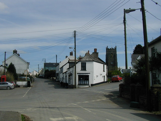 The Square, West Down, Devon